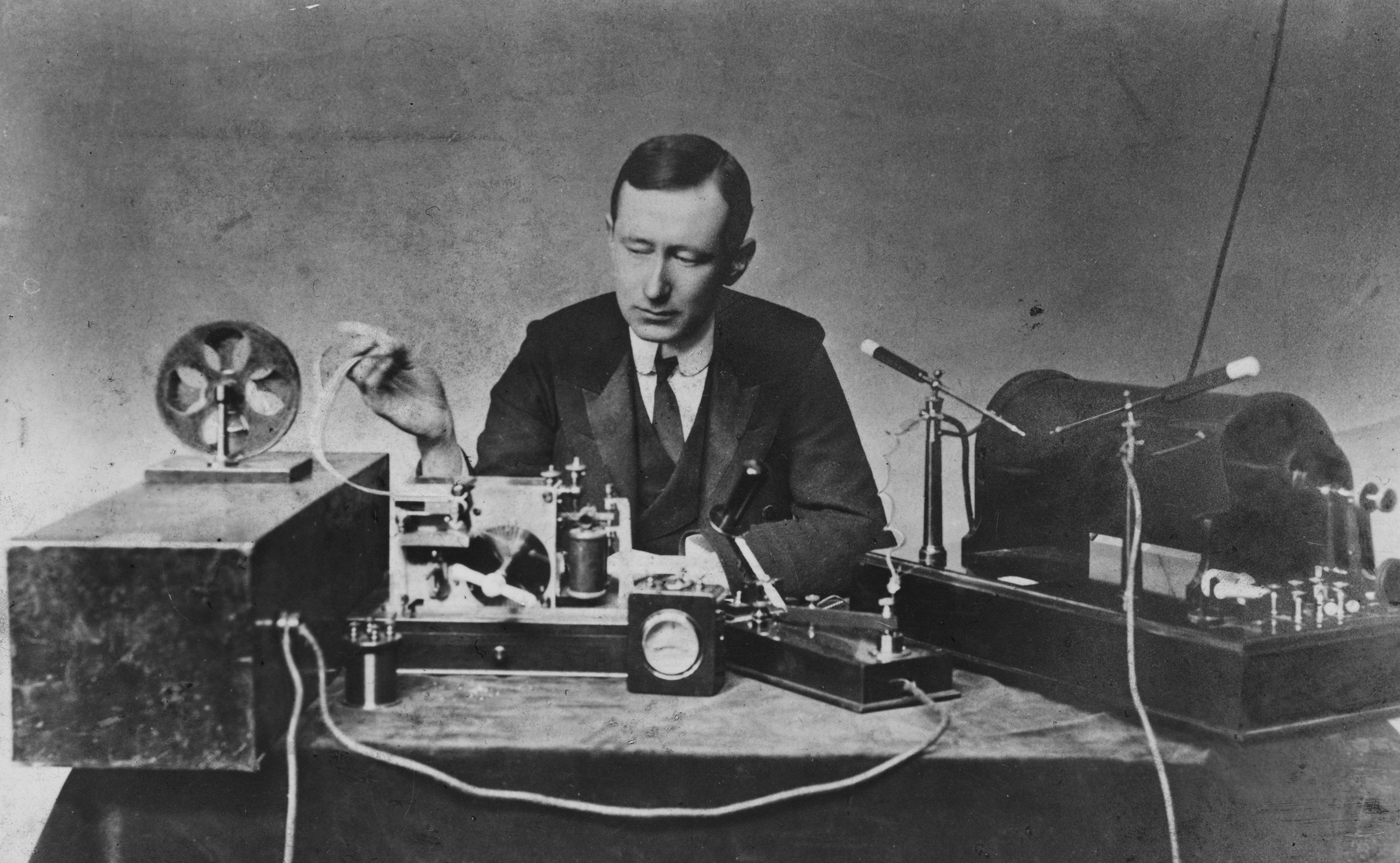 Electrical engineer/inventor Guglielmo Marconi with the spark-gap transmitter (right) and coherer receiver (left) he used in some of his first long distance radiotelegraphy transmissions during the 1890s.